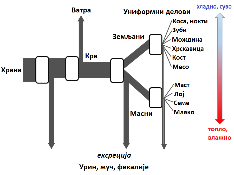 Aristotle's metabolism as an open flow model. Each process produces residues which are excreted. Each tissue is a completely uniform part with no internal structure. This is Serbian translation of the File:Aristotle's metabolism.png